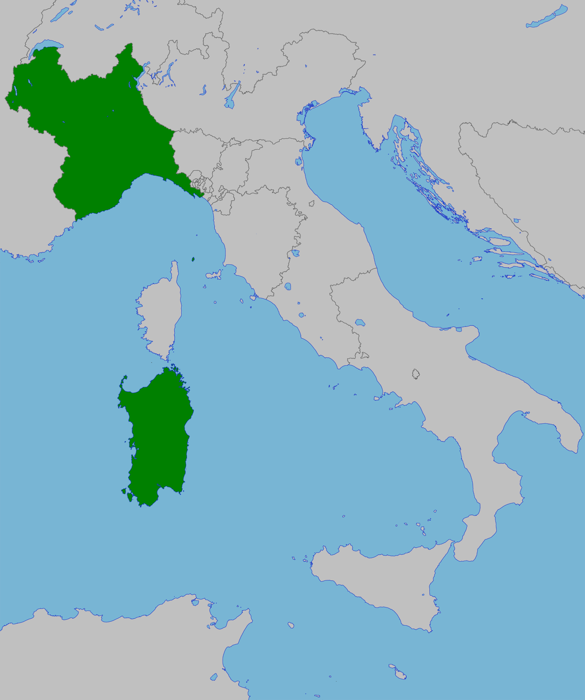 Location of the Kingdom of Sardinia in 1815 Italy